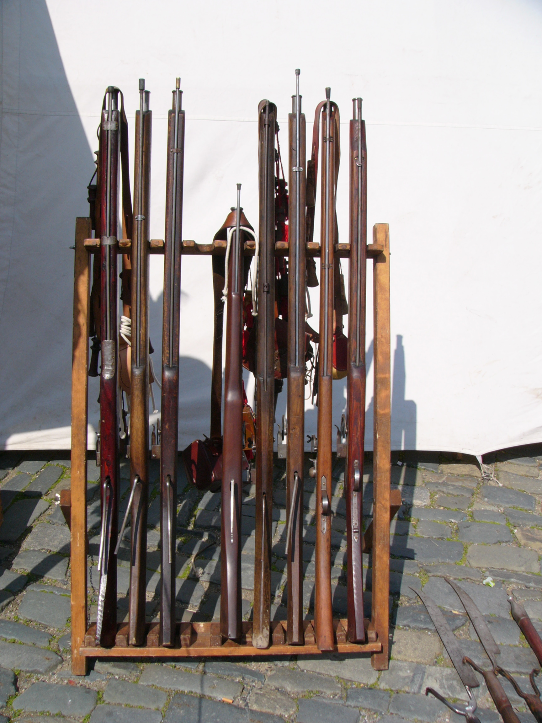 Replicas of muskets from period of Thirty Years' War battle.